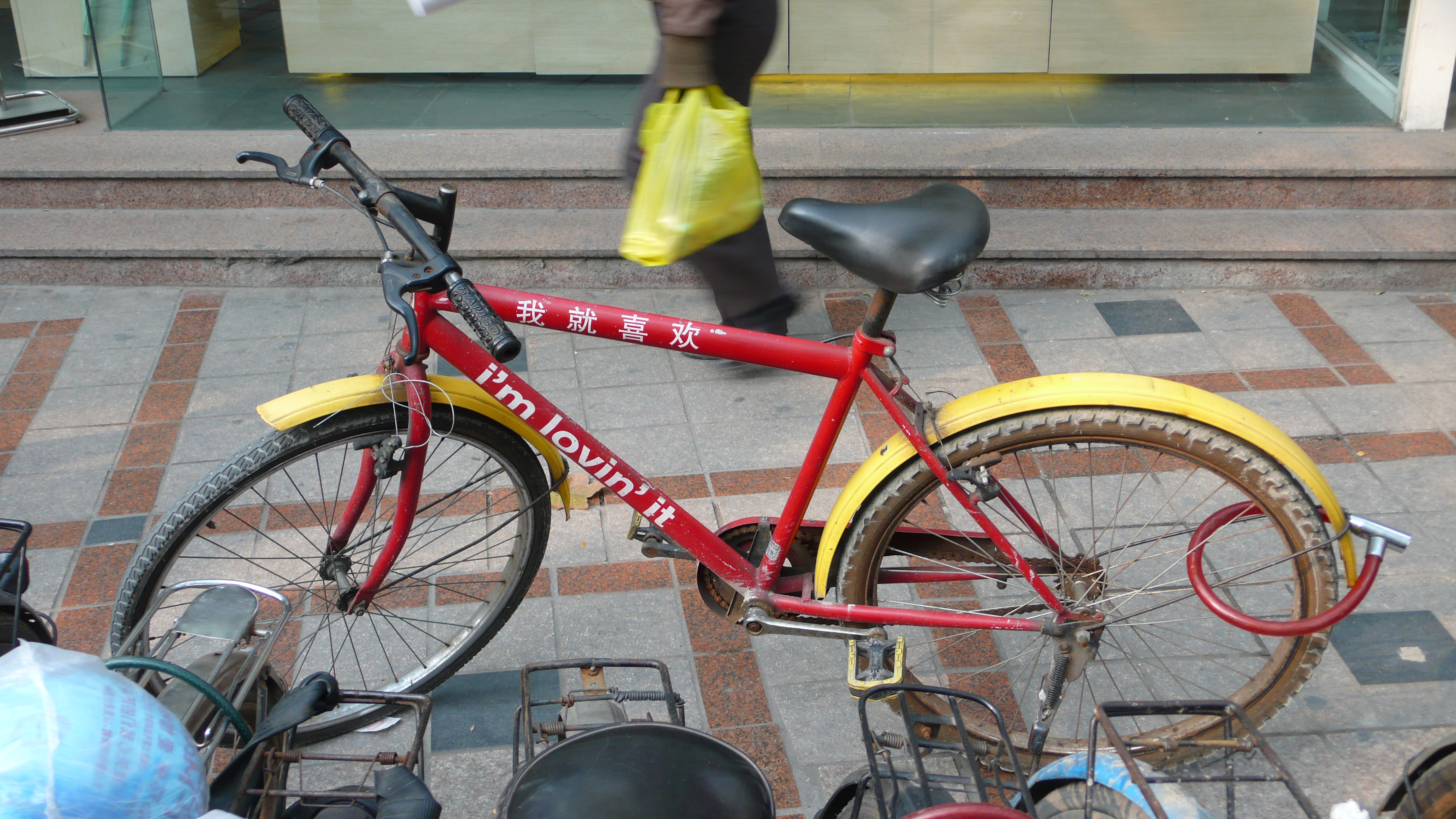 An I'm Lovin' It bicycle so that McDonald's can deliver. I love it. (Shanghai, China)